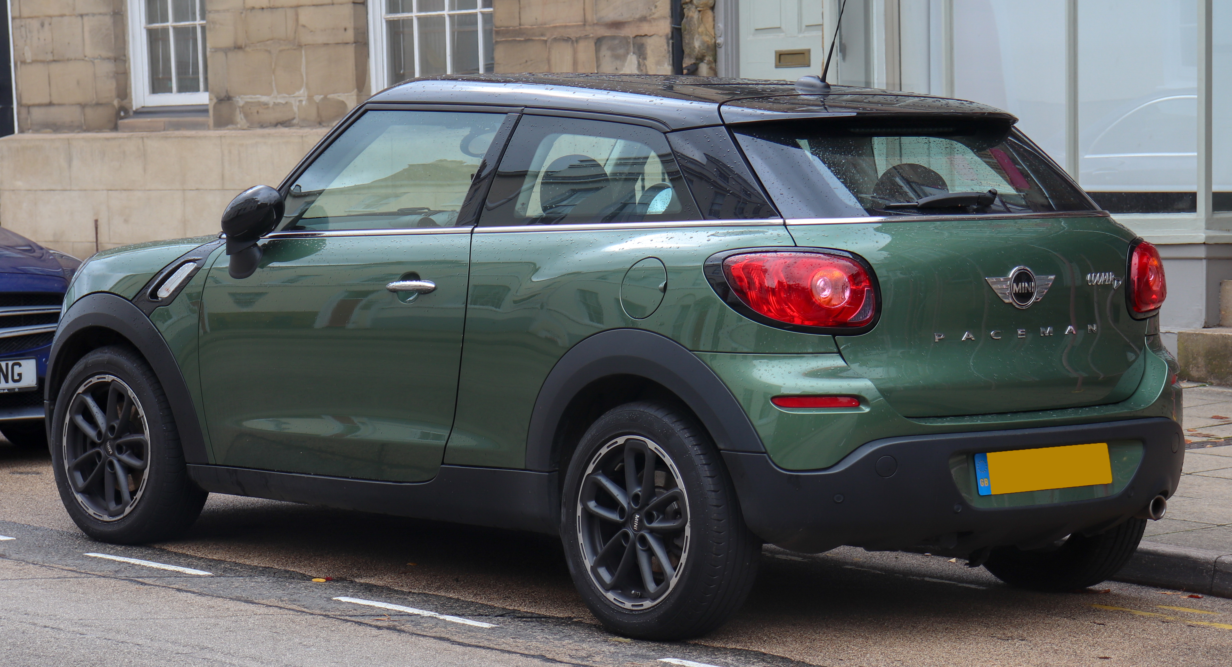 2015 Mini Paceman Cooper D Automatic 2.0 Rear Taken in Warwick